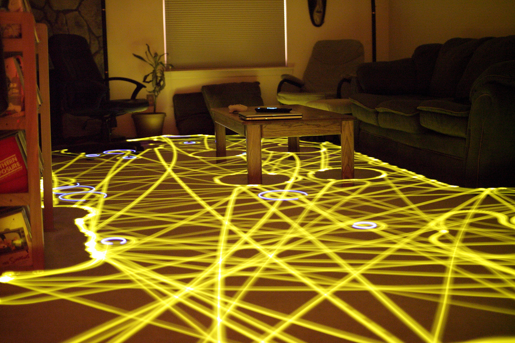 The path taken by a Roomba robotic vacuum cleaner as it cleans a room. Description quotes: "45 minute exposure of my Roomba cleaning a room." "blue circles that come from the Roomba spot cleaning." "There is no extra "lighting". This model roomba has a primary ring in the middle that shows yellow when running and orange when low on power. A smaller blue light manifests when it's detected significant dirt."